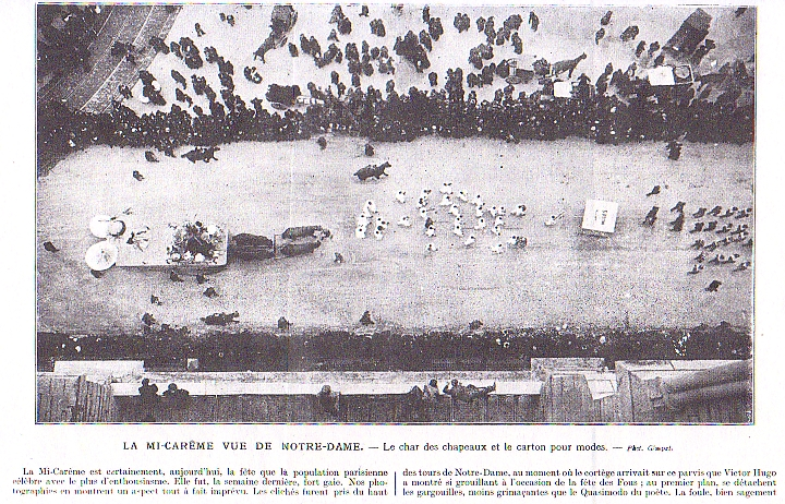 The procession of the Mi-Carême 1910, in Paris, given the high towers of Notre Dame. There are the chariot hats and cardboard por modes.